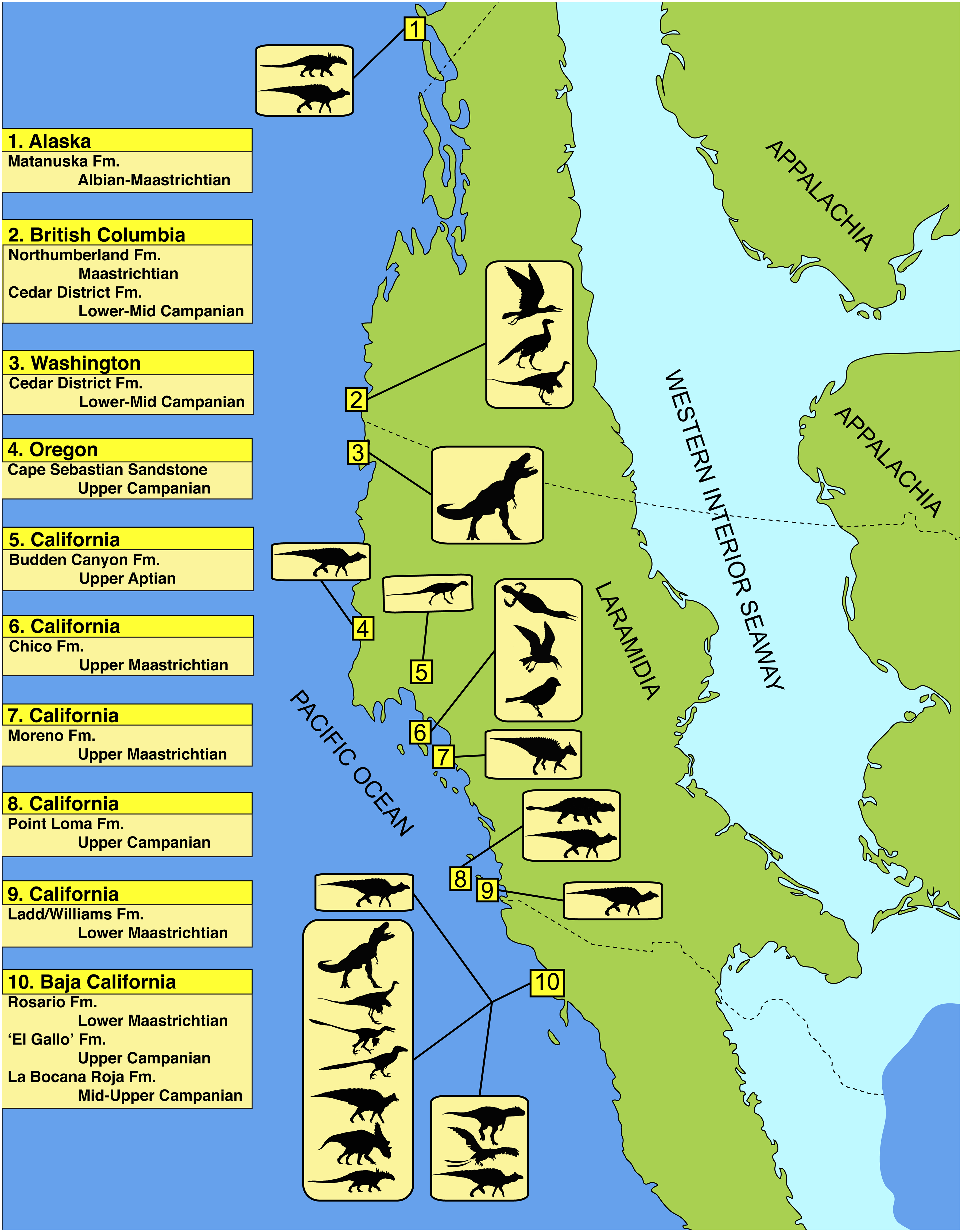 Map showing the dinosaur assemblage of several formations along the western coast of Laramidia; for details see original publication